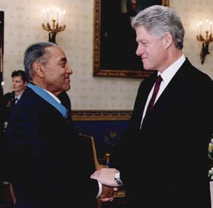 Vernon Baker received Medal of Honor from President Bill Clinton